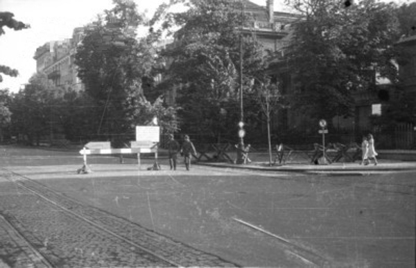 Month before WarsawUprising: Intresection of Aleje Ujazdowskie and Piusa XI Street (today called Piękna Street) viewed from North. On the oposite side of the street visible townhouses (from the left) at Al. Ujazdowskie 17 [1] and 19 [2]. Behind the trees hidden from view is building of Aleja Ujazdowskie 23 [3] housing Headquarters for Warsaw district of SS and Police. In front of that building Polish underground executed Franz Kutschera.